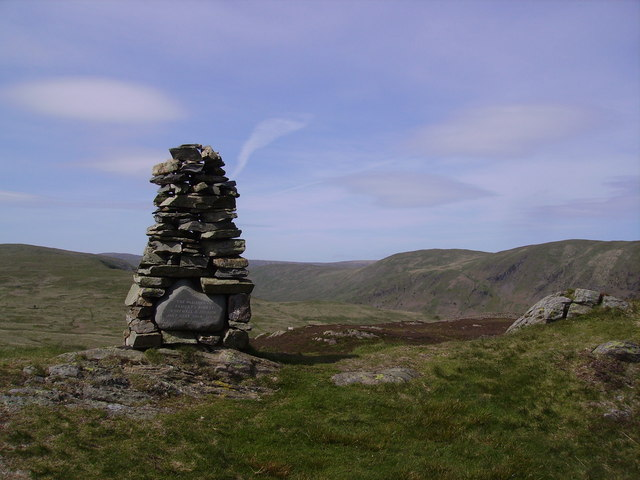 Cairn, Whiteside Pike. Looking up Bannisdale. The plaque on the Cairn celebrating the millennium features in the supplemental image 259151 for this square.